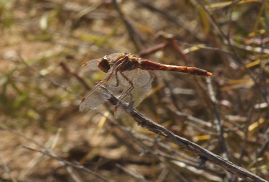 A dragonfly as seen along the Oxbow Nature Trail at the Bitter Lakes National Wildlife Reserve